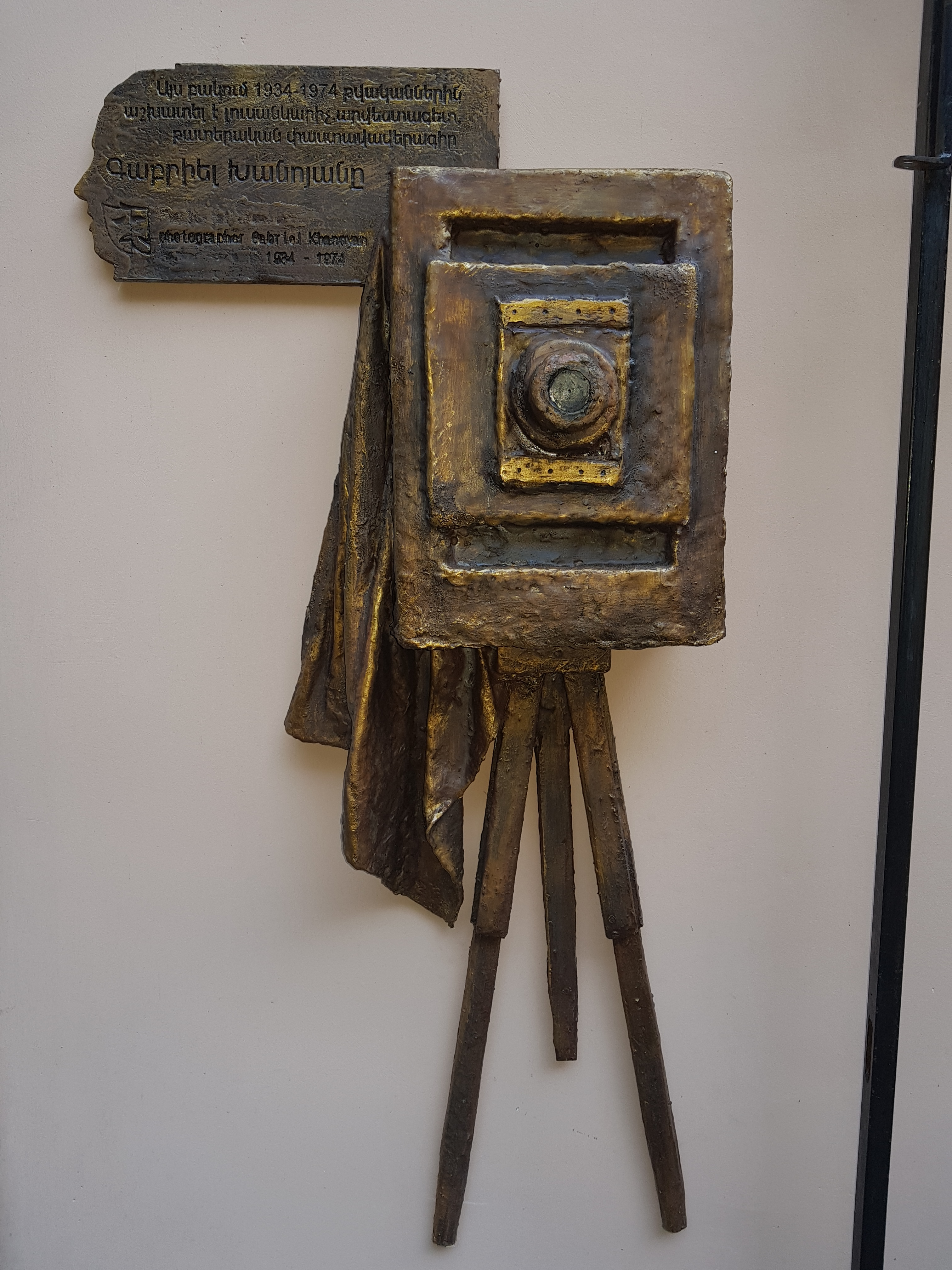 To the memory of Gabriel Khanoyan